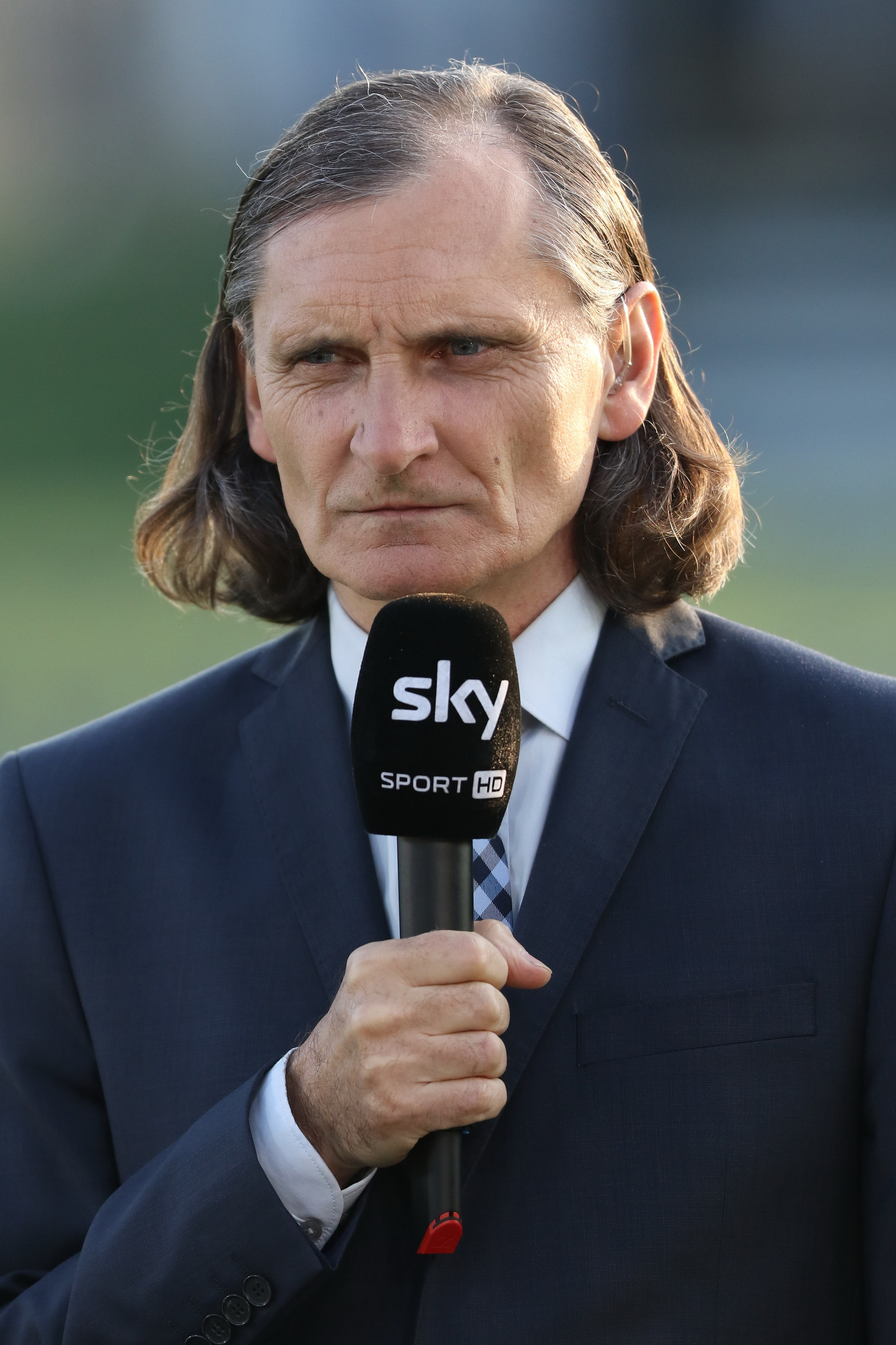 Match of the Erste Liga – SC Wiener Neustadt (blue/white shirts) vs. FC Wacker Innsbruck (green/black shirts) 0–2 (0–1) on 2016-04-11 in the Stadion in Wiener Neustadt – The photo shows Alfred Tatar as sky-TV-expert.